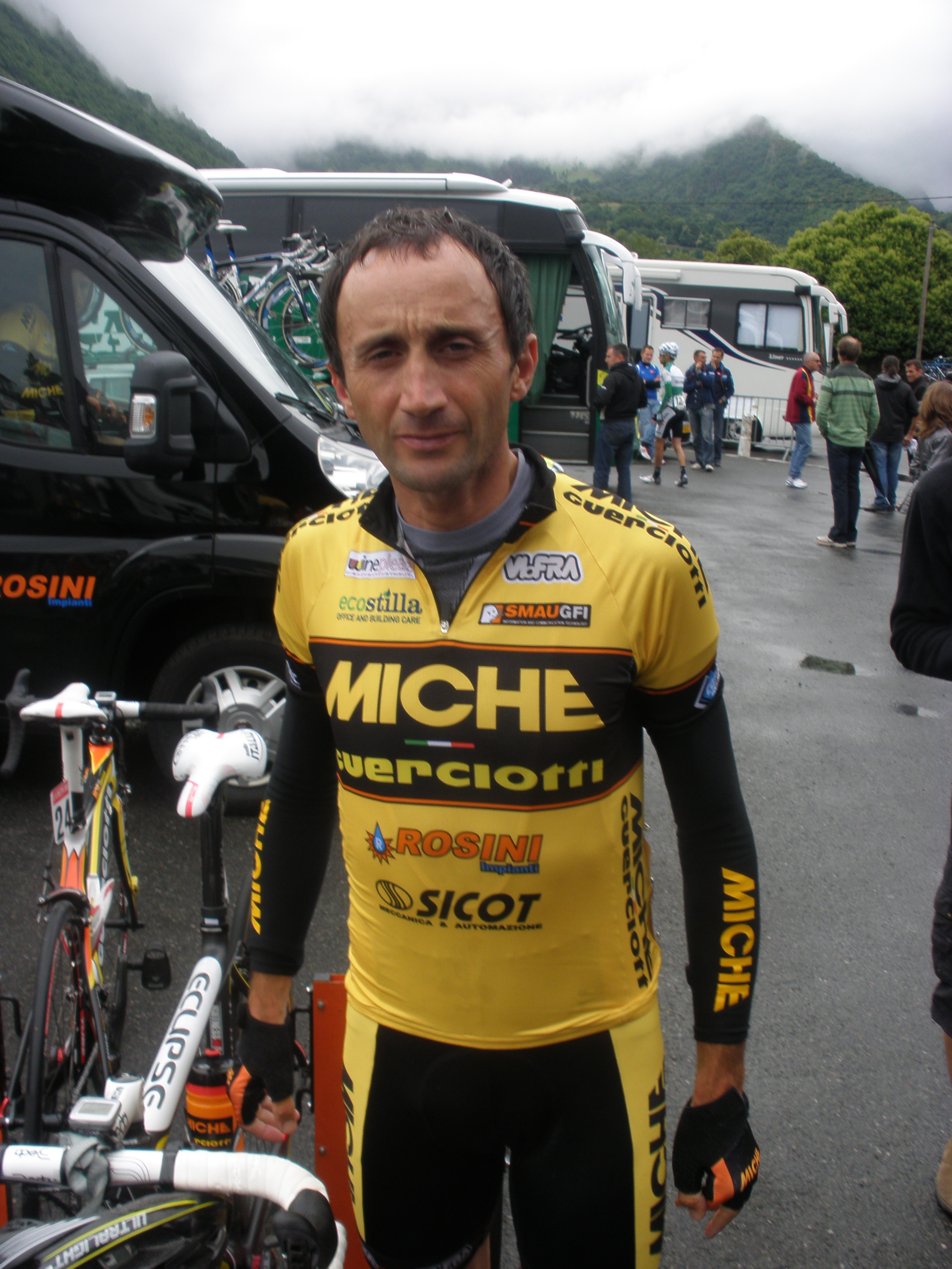 Davide Rebellin at the start of stage 3 of 2011 Route du Sud.